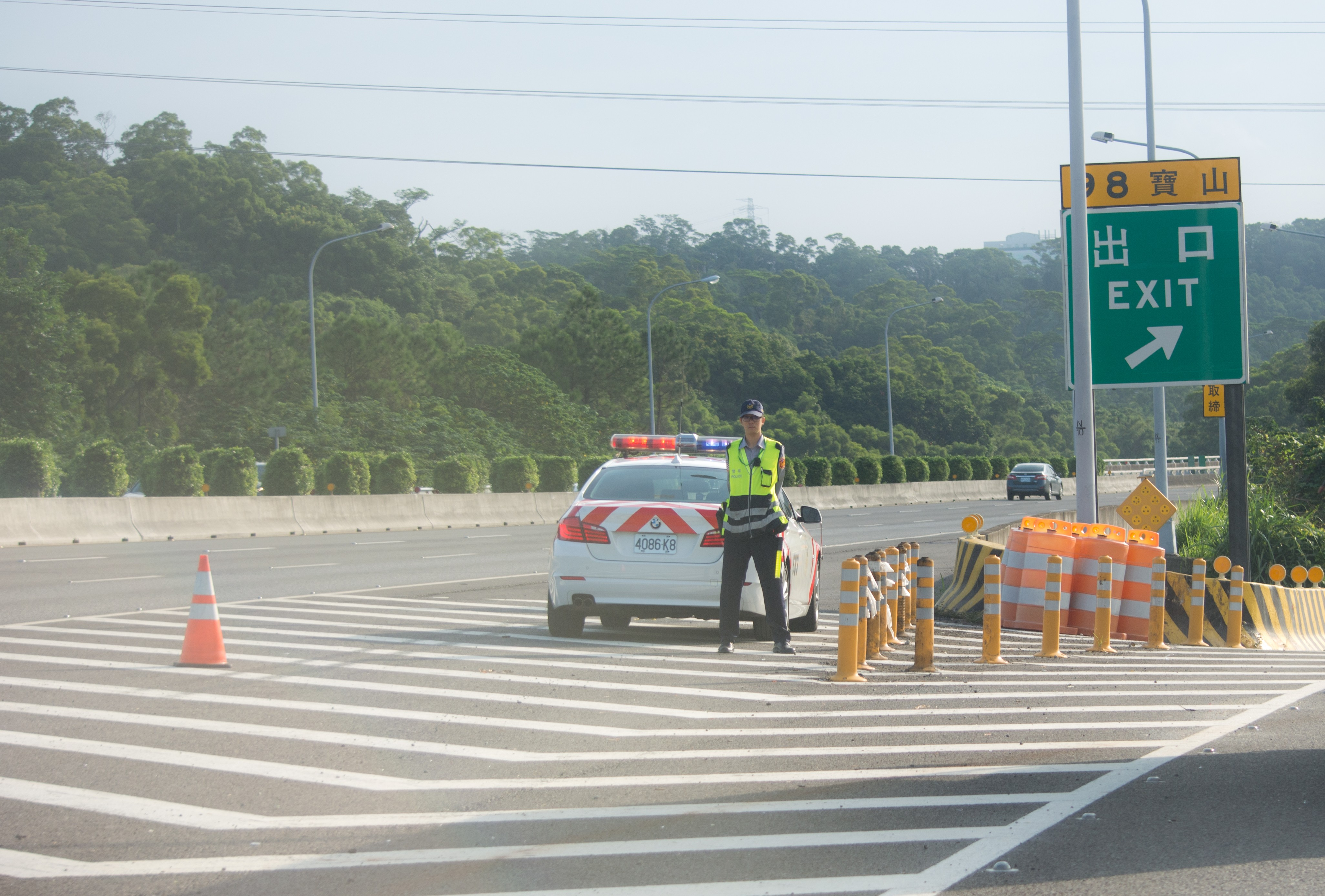 National Highway Police Bureau patrol car 4086-K8 on duty at Baoshan Interchange.